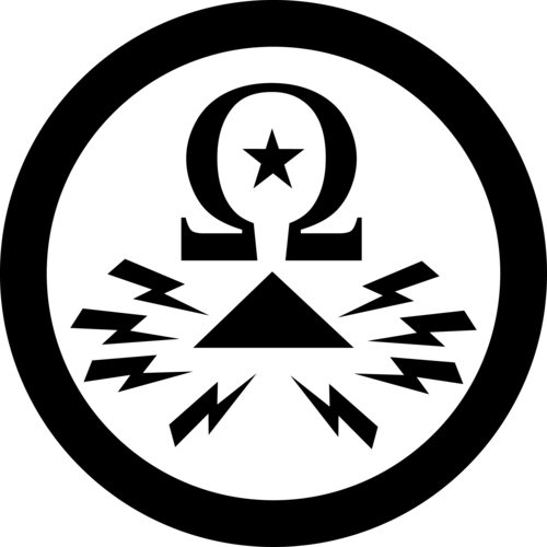 Logo of Telecomix.